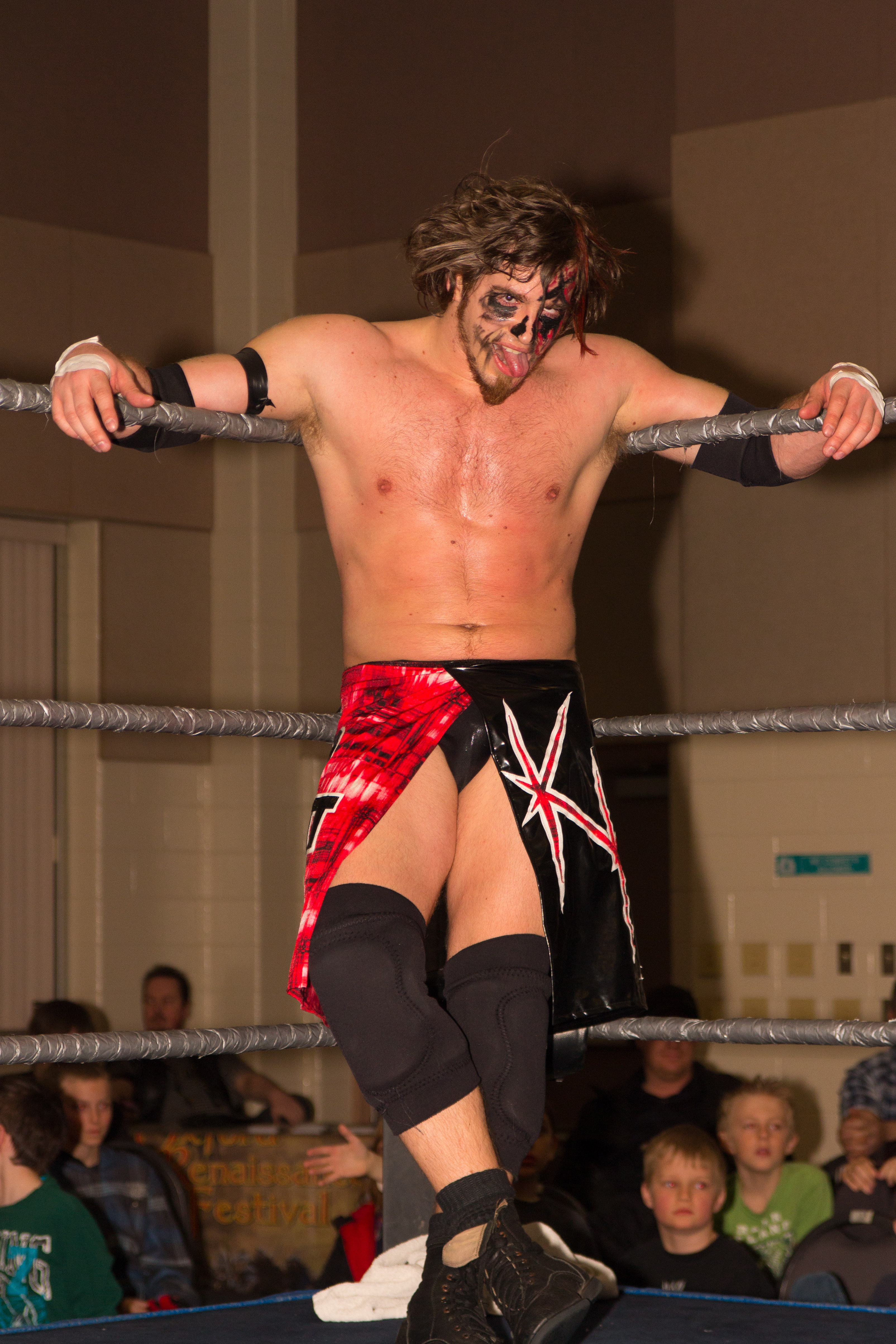 Professional wrestler Crazzy Steve during a match at a CPW show in Woodstock, ON